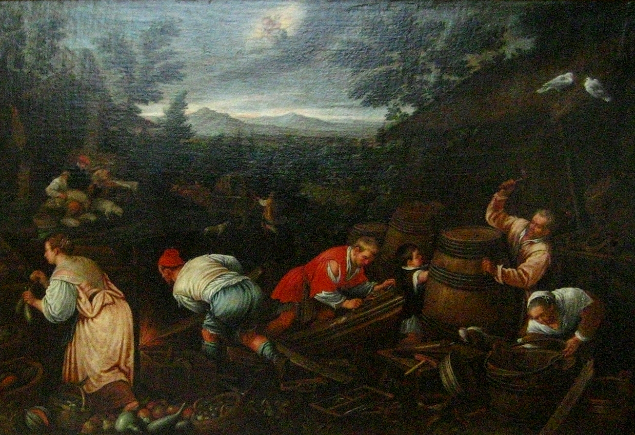 August